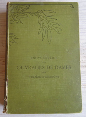 Thérèse de Dillmont (10 October 1846 - 22 May 1890) was an Austrian needleworker and writer. Dillmont's Encyclopedia of Needlework (1886) has been translated into 17 languages.